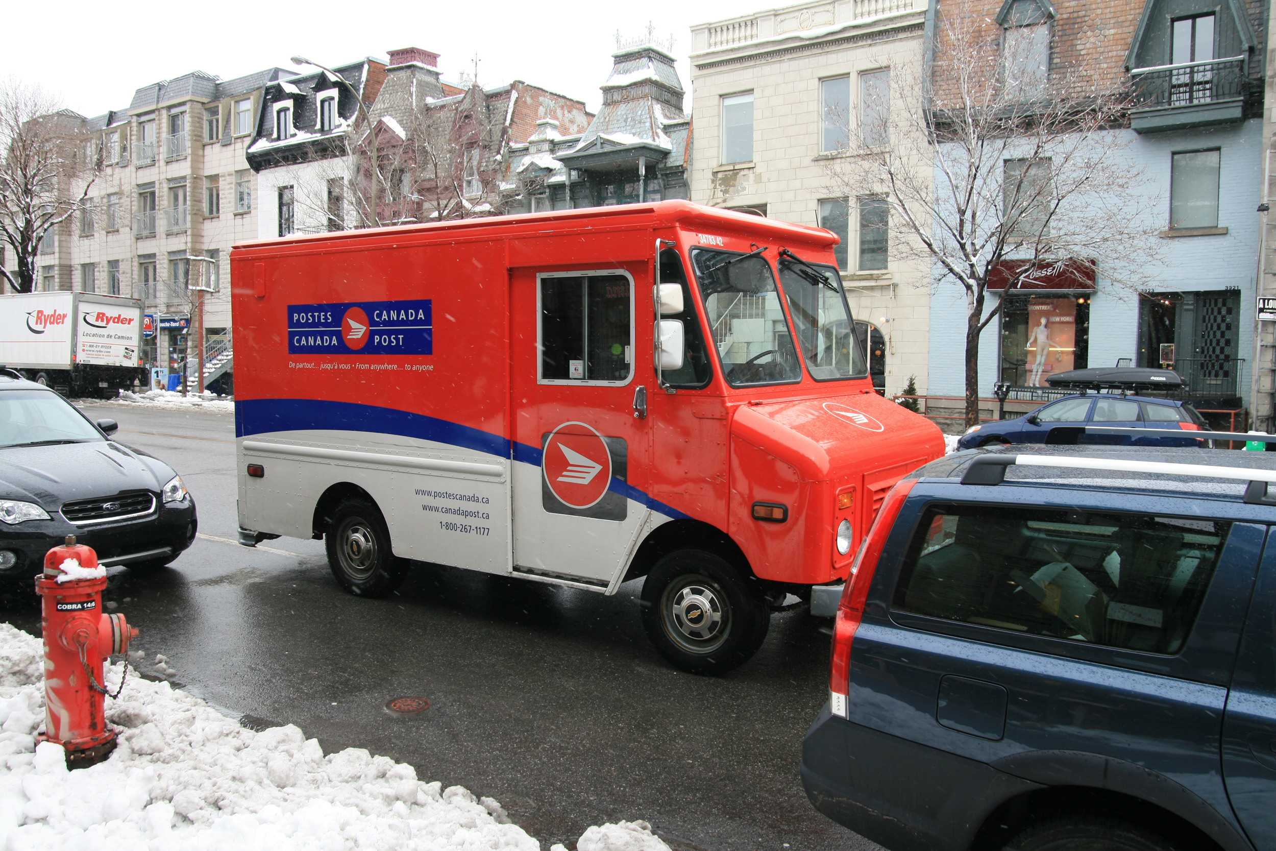 Description: A nice red canadian postvan, taken on the streets of Montreal